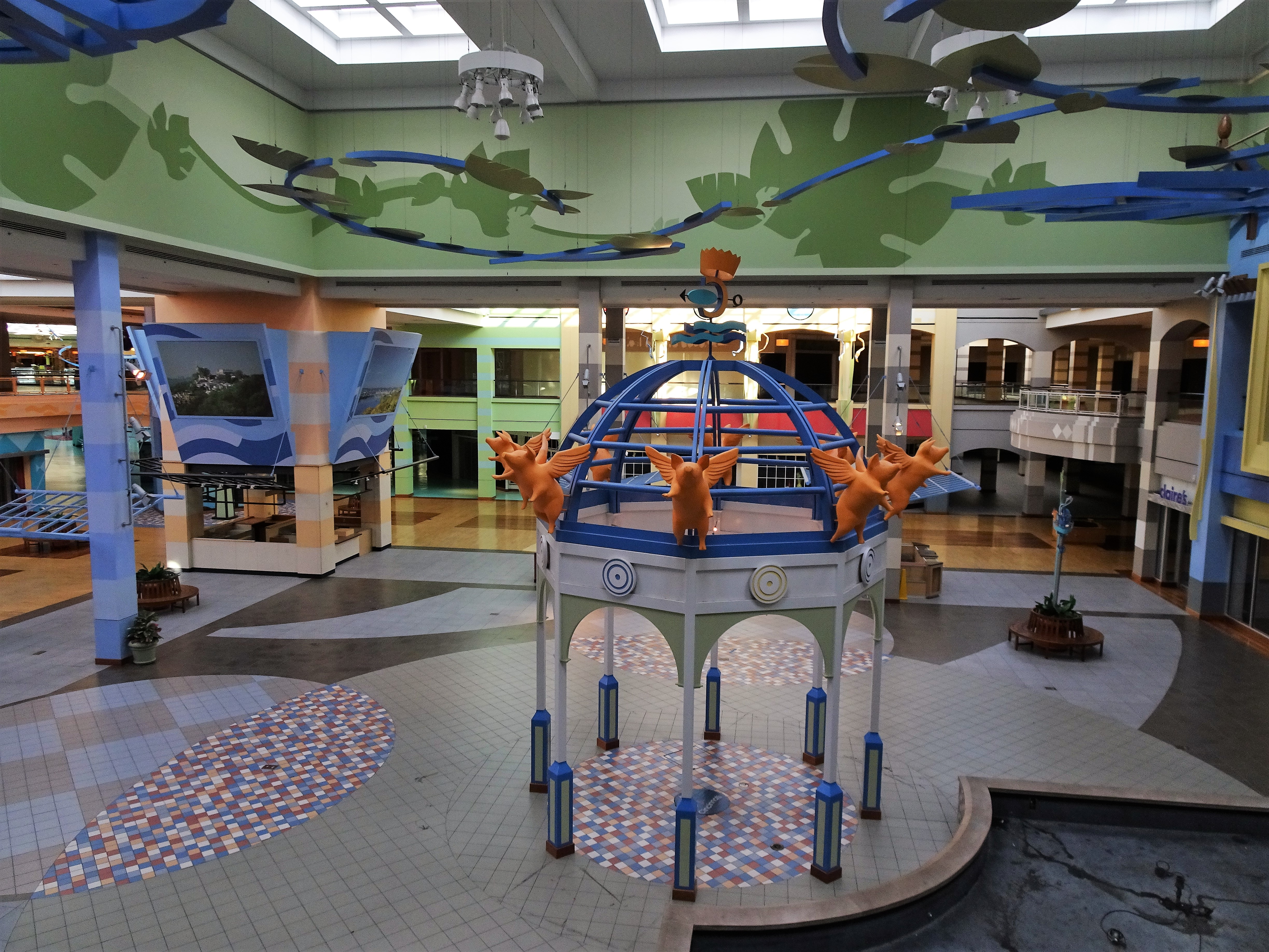 Photo of the main center court located at Forest Fair Village Mall, a dead mall, in Cincinnati, Ohio.